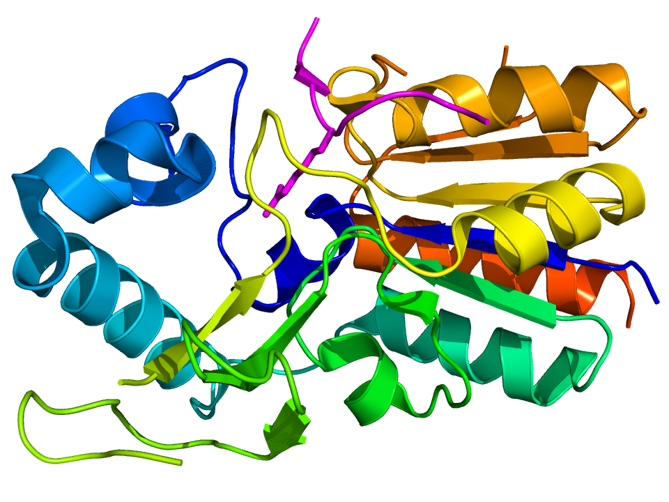 Crystallographic structure of CobB based on the 1S5P pdb coordinates.